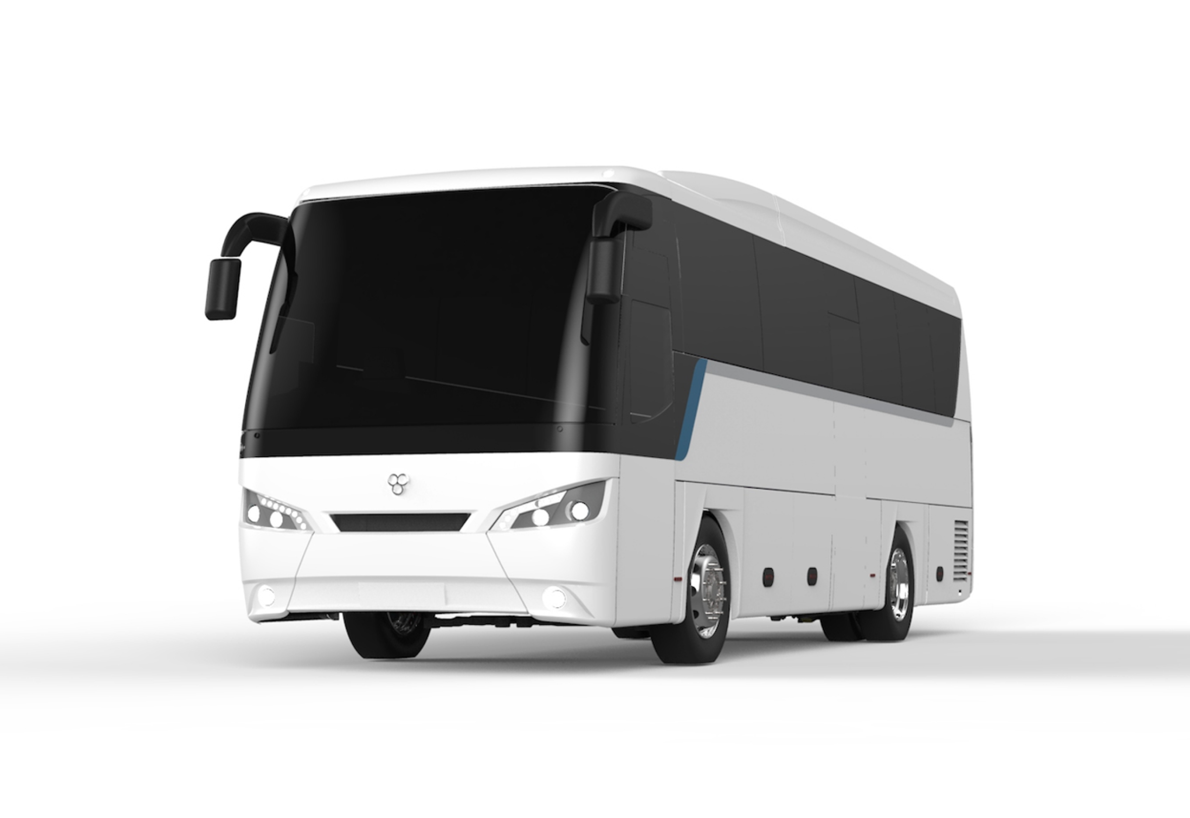 Coach by TAM